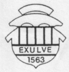 Escudo de Ejulve